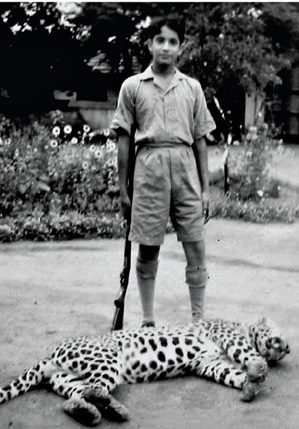 Black-and-white image of Idris Hasan Latif with a panther, c. 1938